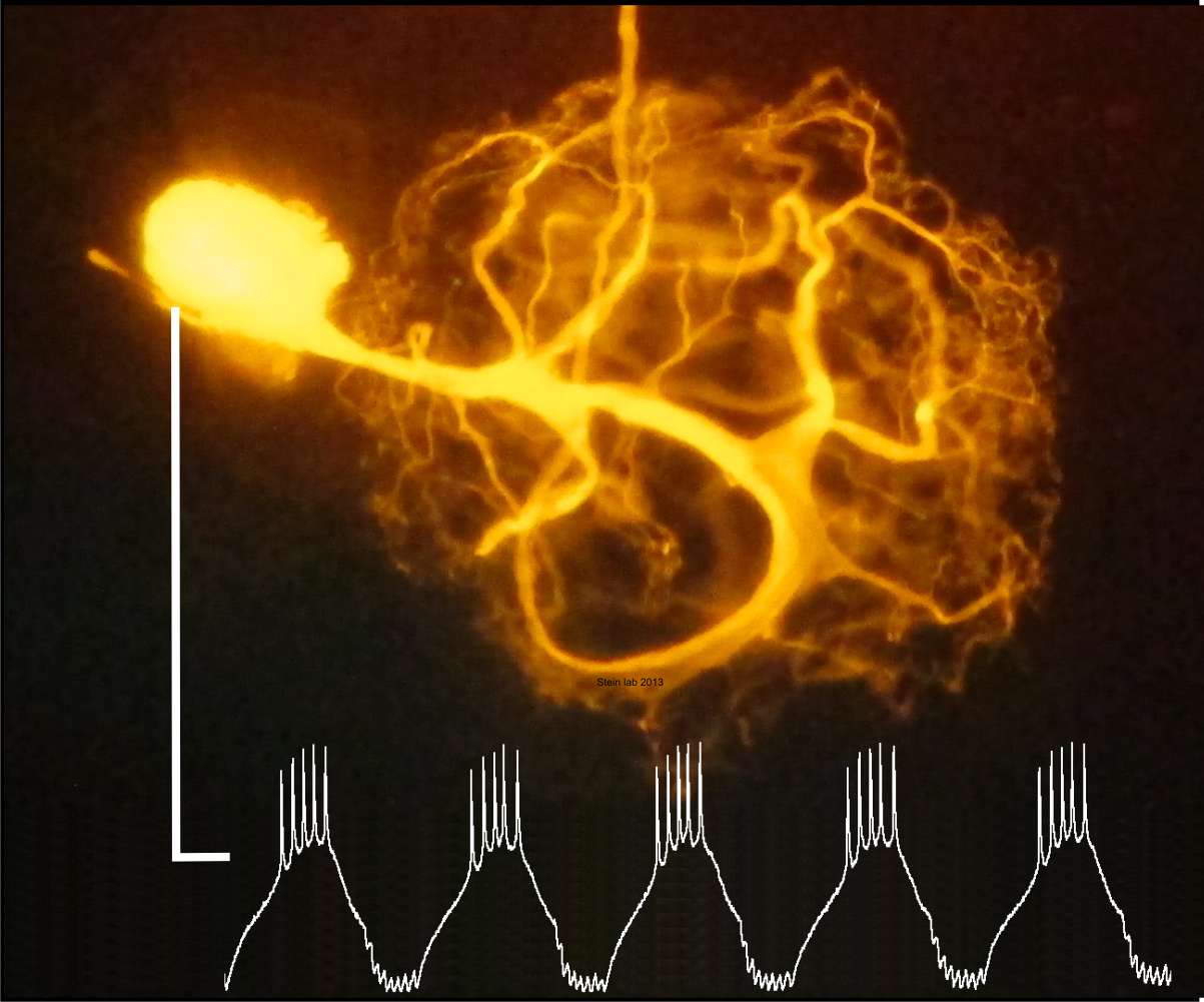 This is a fluorescent staining of the PD pacemaker neuron in the stomatogastric ganglion of the crab, Cancer borealis. The inset shows the rhythmic membrane potential oscillations of PD.